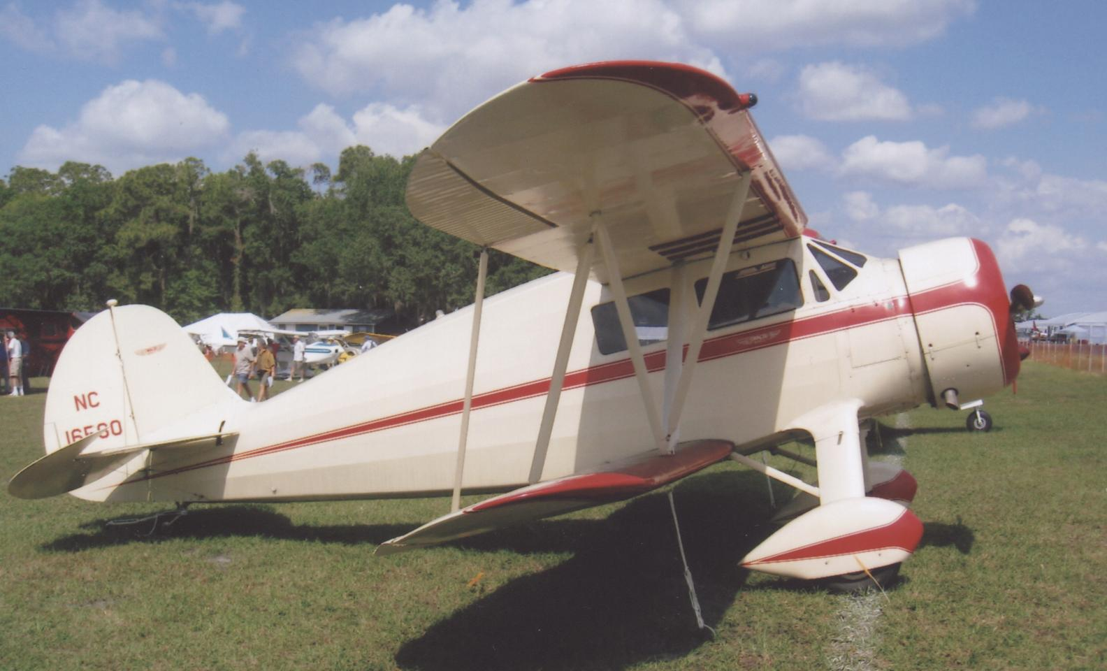 Waco YKS-6 cabin biplane built 1936 at Lakeland Florida